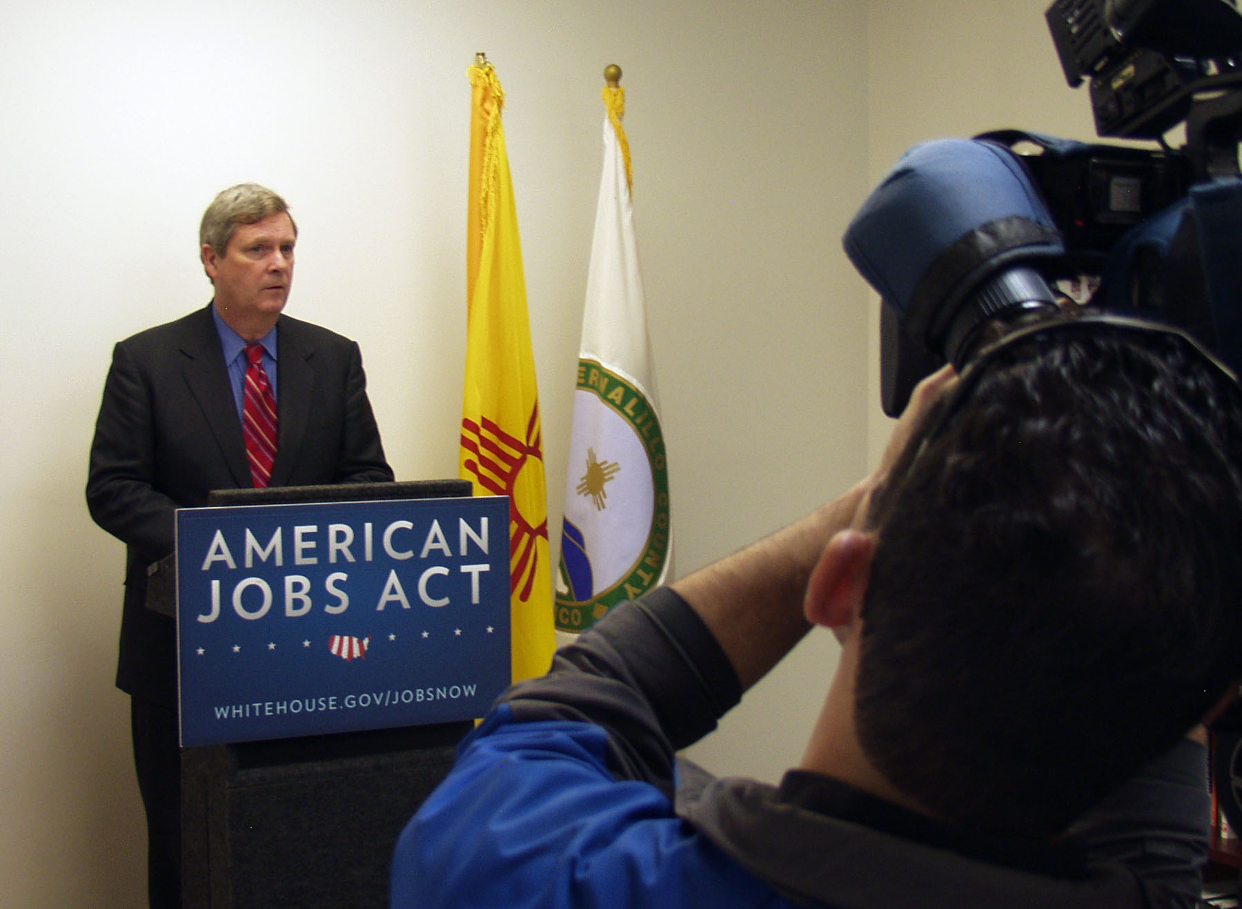 Agriculture Secretary Tom Vilsack speaks to the media after the business roundtable held at the South Valley Economic Development Center (SVEDC) in Albuquerque, NM, on Thursday, December 8, 2011. Agriculture Secretary Tom Vilsack joined business and community leaders to discuss the Administration's strategy to strengthen the U.S. economy and to highlight what passage of the American Jobs Act will mean for New Mexico. USDA Photo.